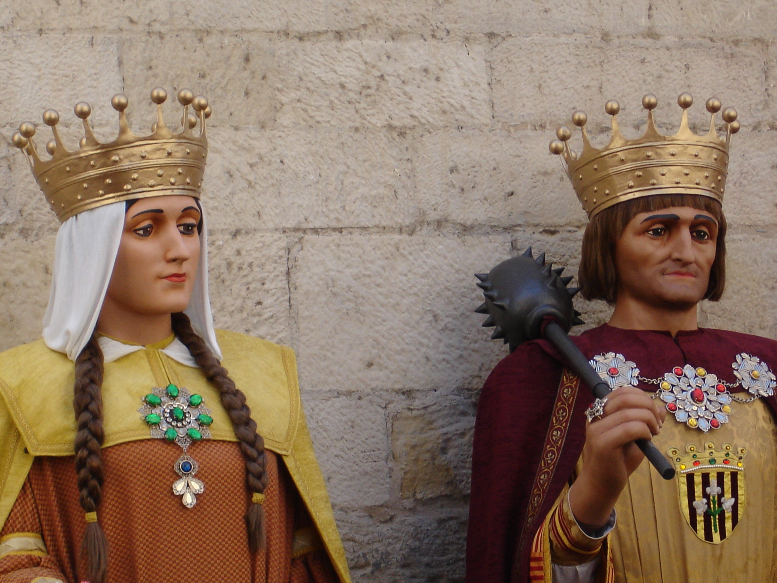 Giants Kings James and Lionor, Lleida (Catalonia, Spain)